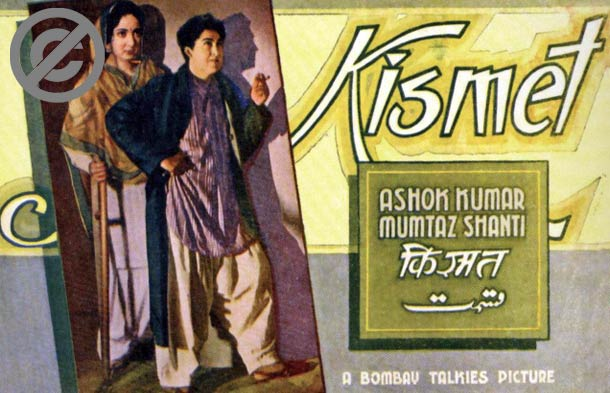 Kismet 1943